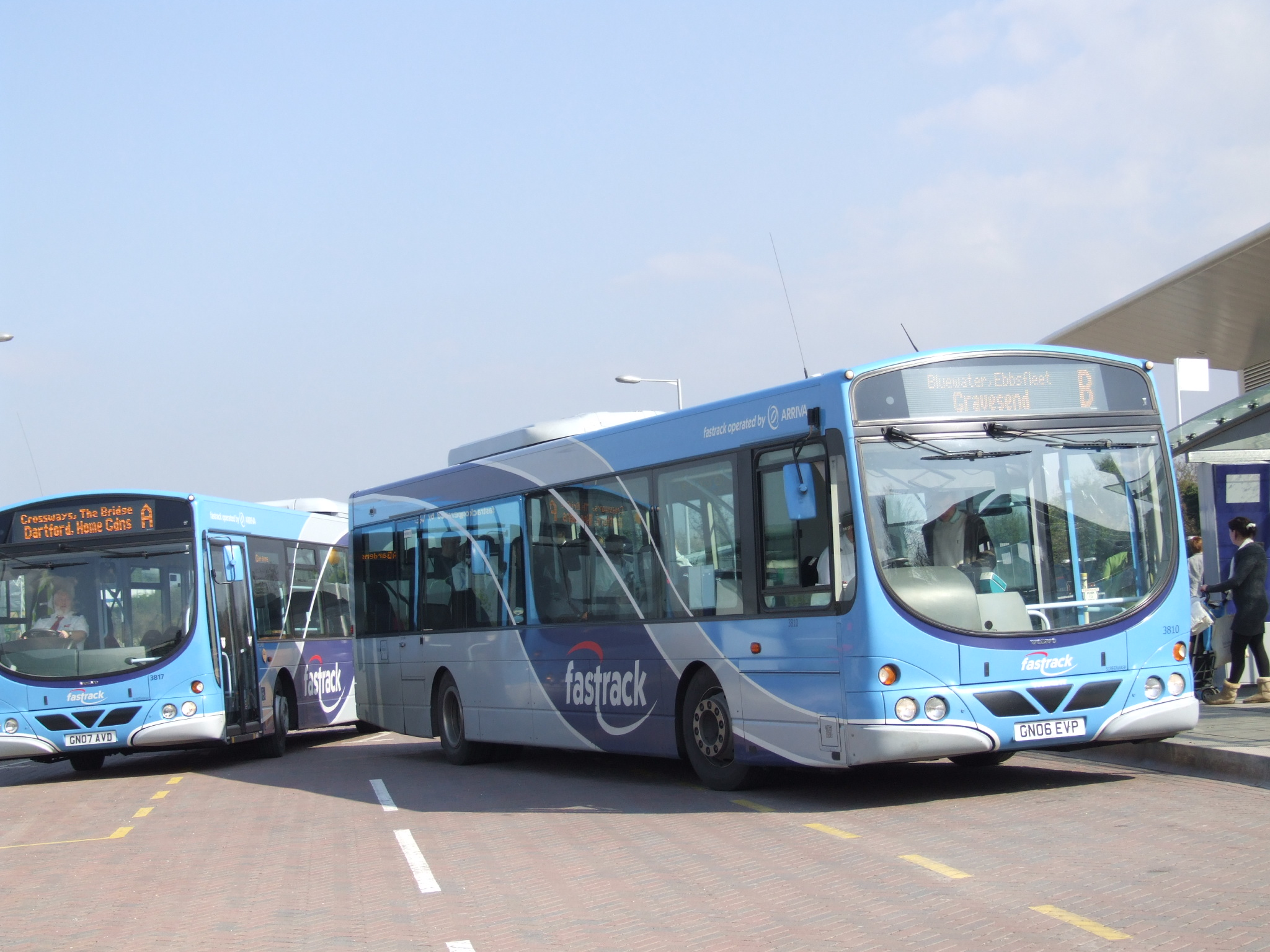 Greenhithe, Kent in April 2008. Fastrack Route A and Route B at Greenhithe Station. At this point, both routes, in both directions stop outside the station. See